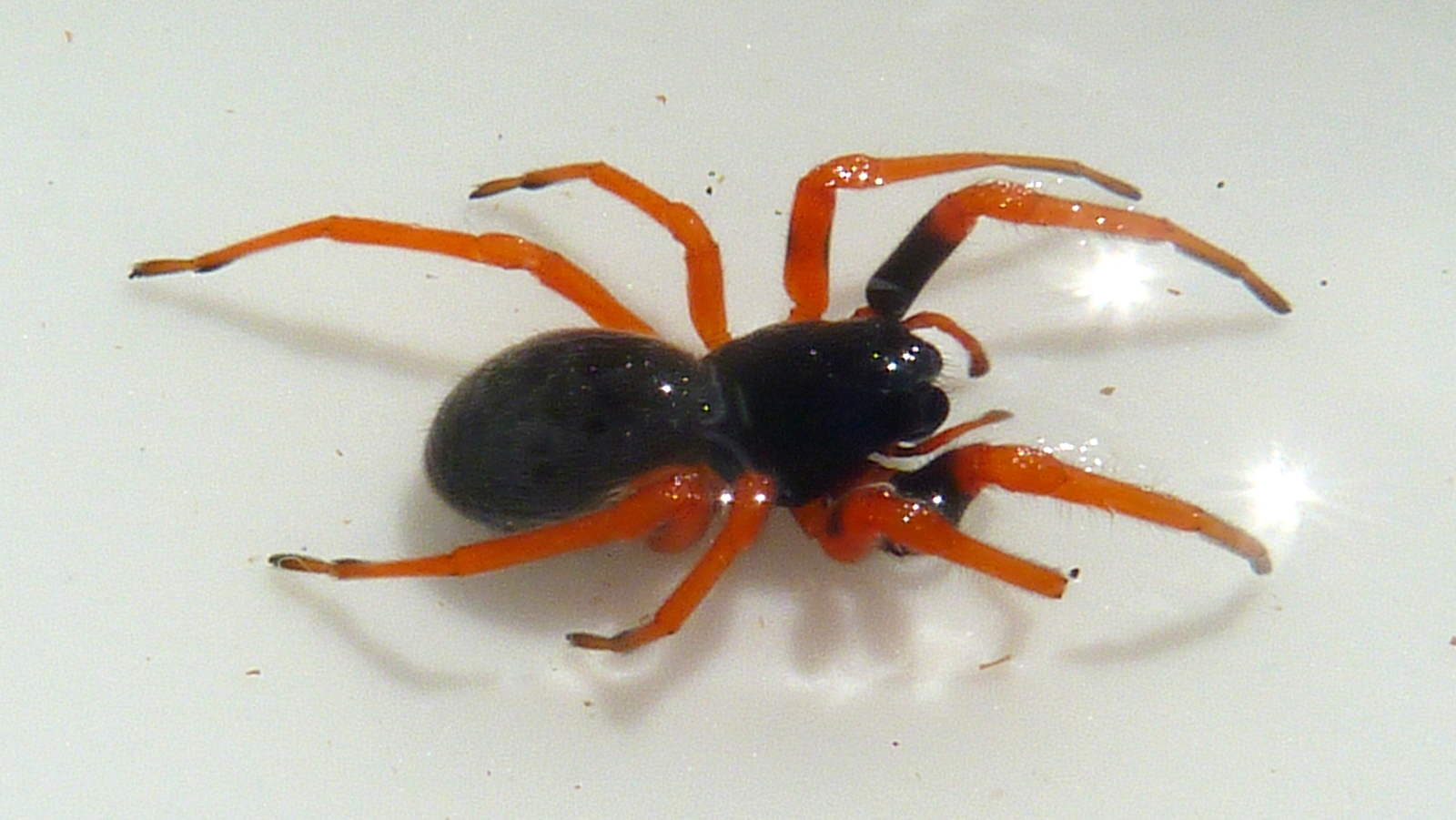 Trachelopachys gracilis (Keyserling, 1891), female